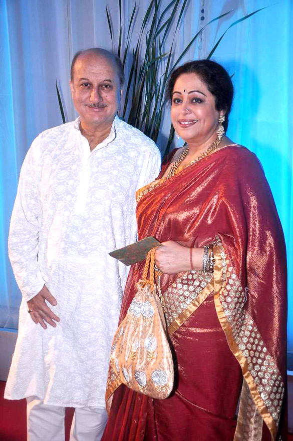 Anupam Kher, Kirron Kher at Esha Deol's wedding reception